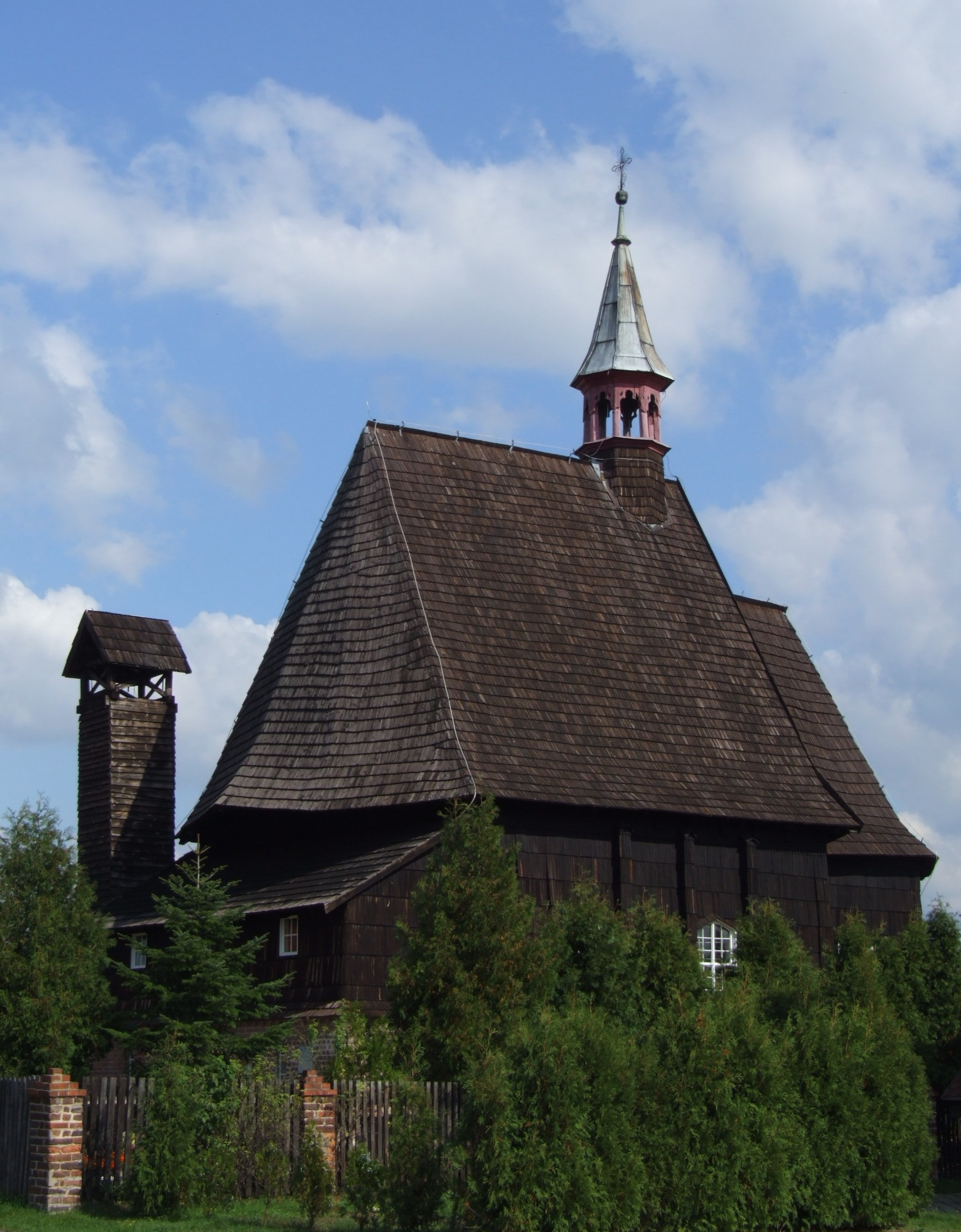 Wooden church in Kolanowice (Kollanowitz, 1936-1945 Kniedrof). Ślůnski: Drzewjanny kośćůł we wśi Kůlanowicy (Kolanowice, Kollantowitz, Kniedrof), na Gůrnym Ślůnsku